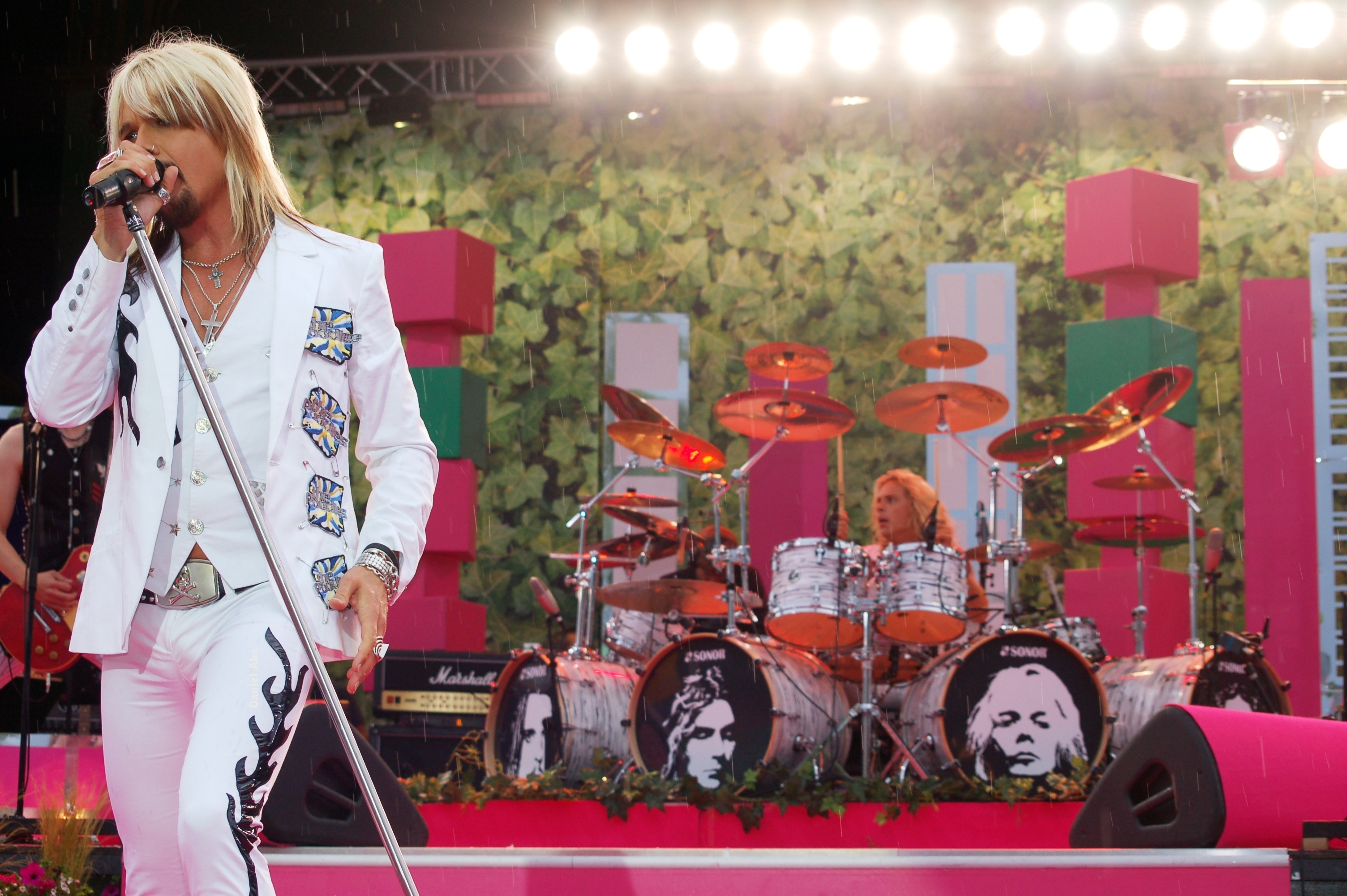 The Poodles på Gröna Lund, Sommarkrysset. 2008